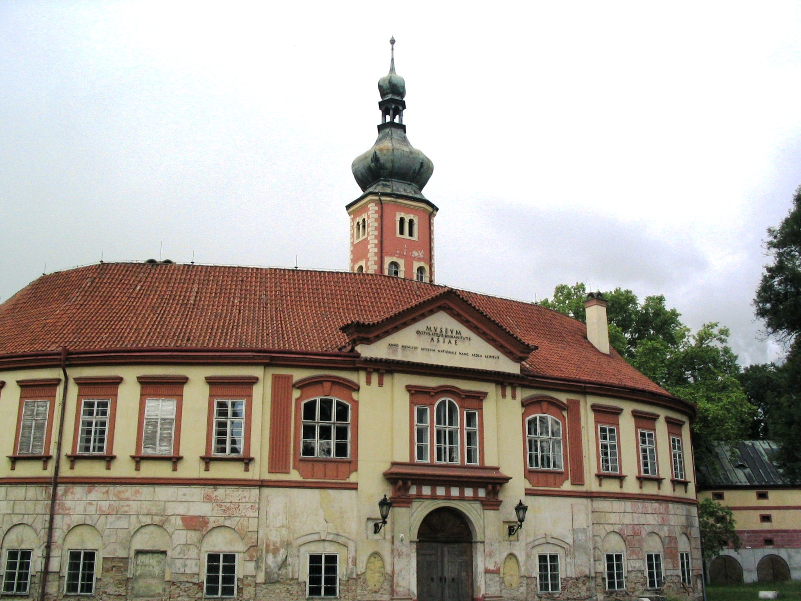 castle of Liběchov, Czech Republic